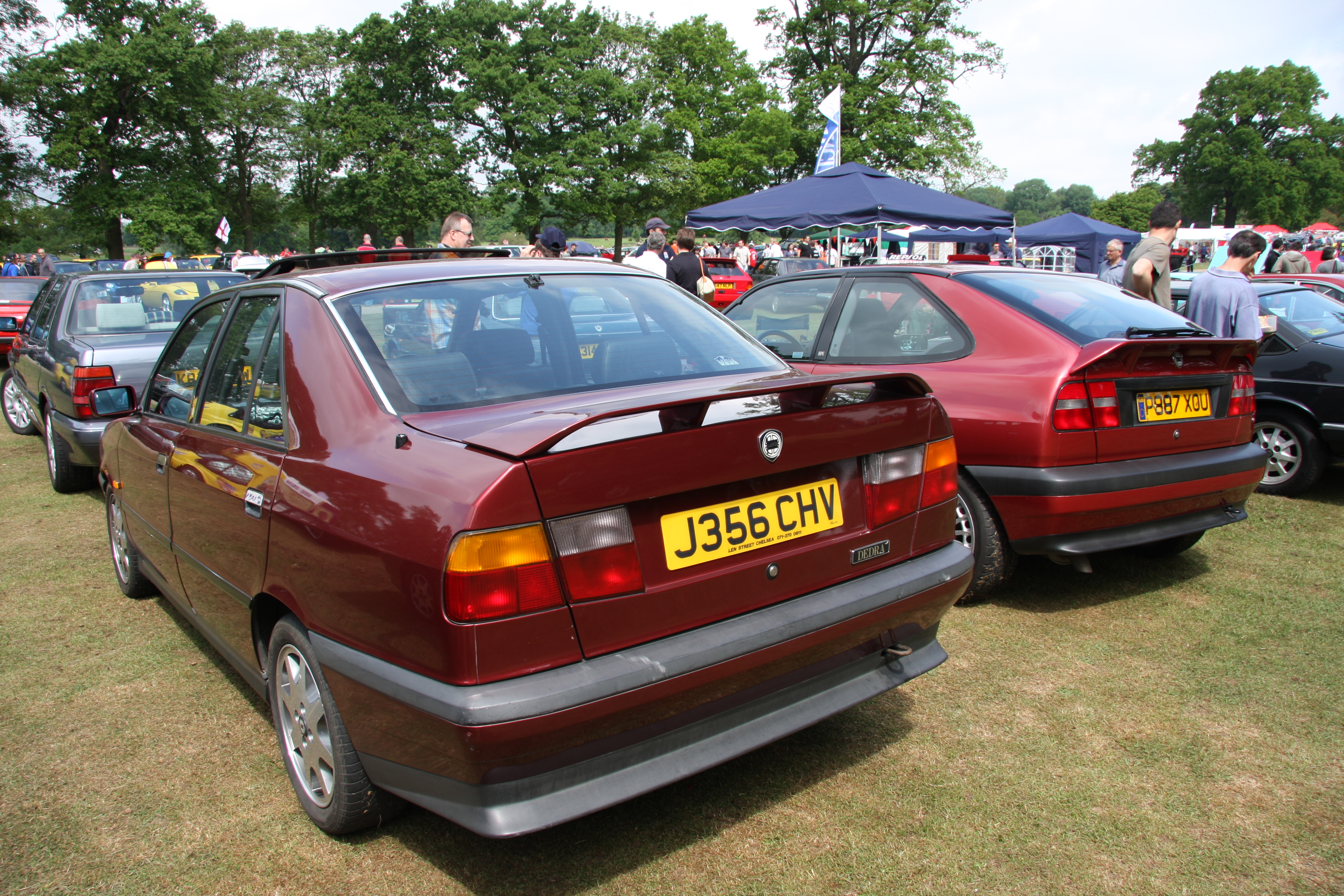 Auto Italia Stanford Hall June 2010 IMG_9414